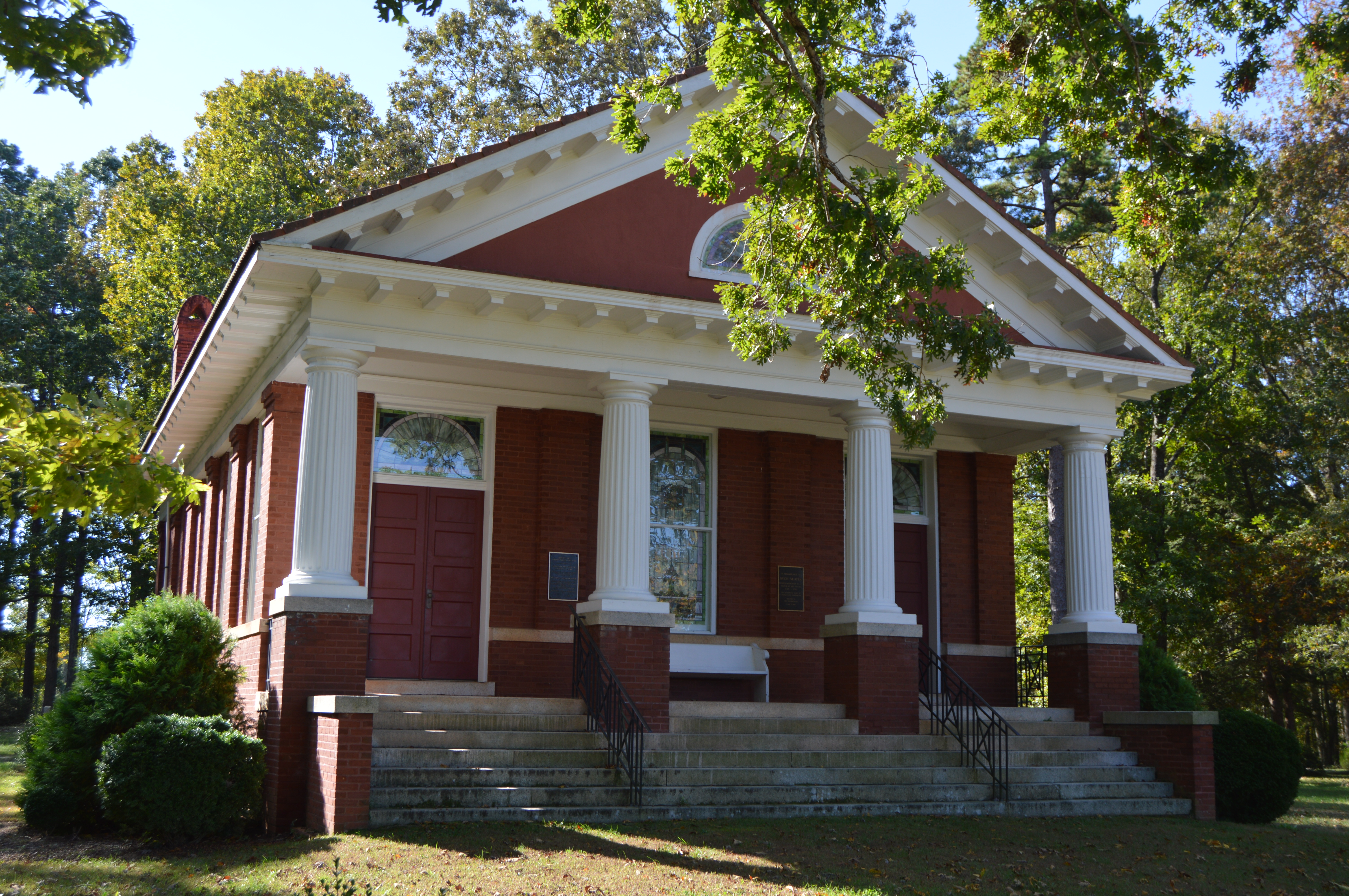 Front and eastern side of the Red House Presbyterian Church, located at 13409 N. North Carolina Highway 119 southwest of Semora in Caswell County, North Carolina, United States. Built in 1913, it is listed on the National Register of Historic Places.